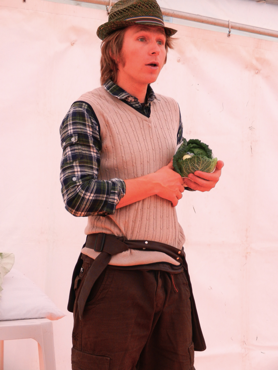 Ben Faulks playing Mr Bloom in Edinburgh, June 2012